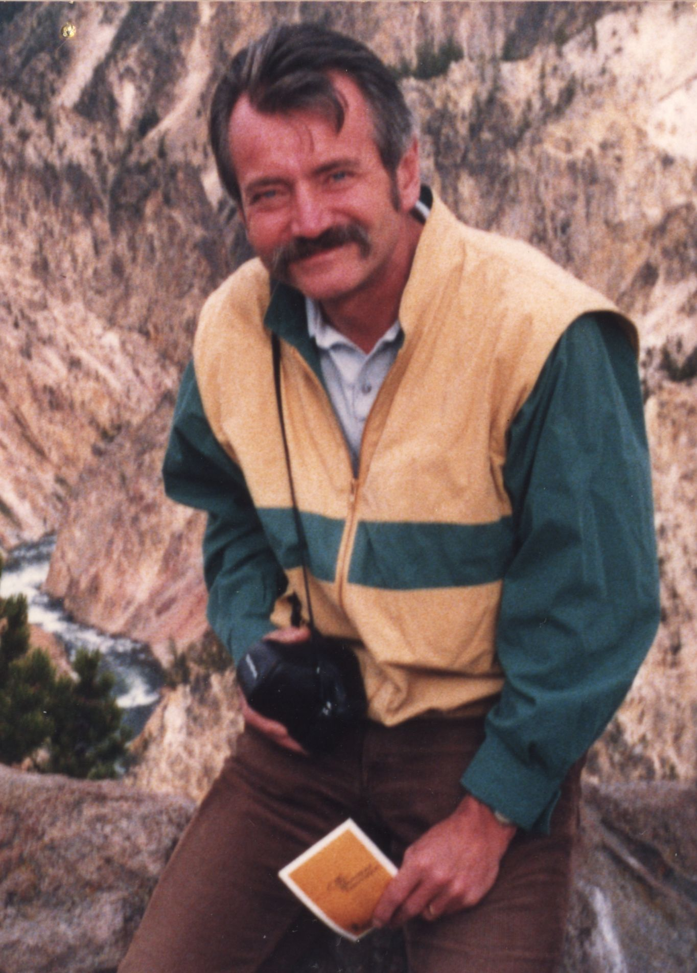 privat photograph (1984) of Prof. Dr. Karl Kraus, Physicist, University of Würzburg, Germany